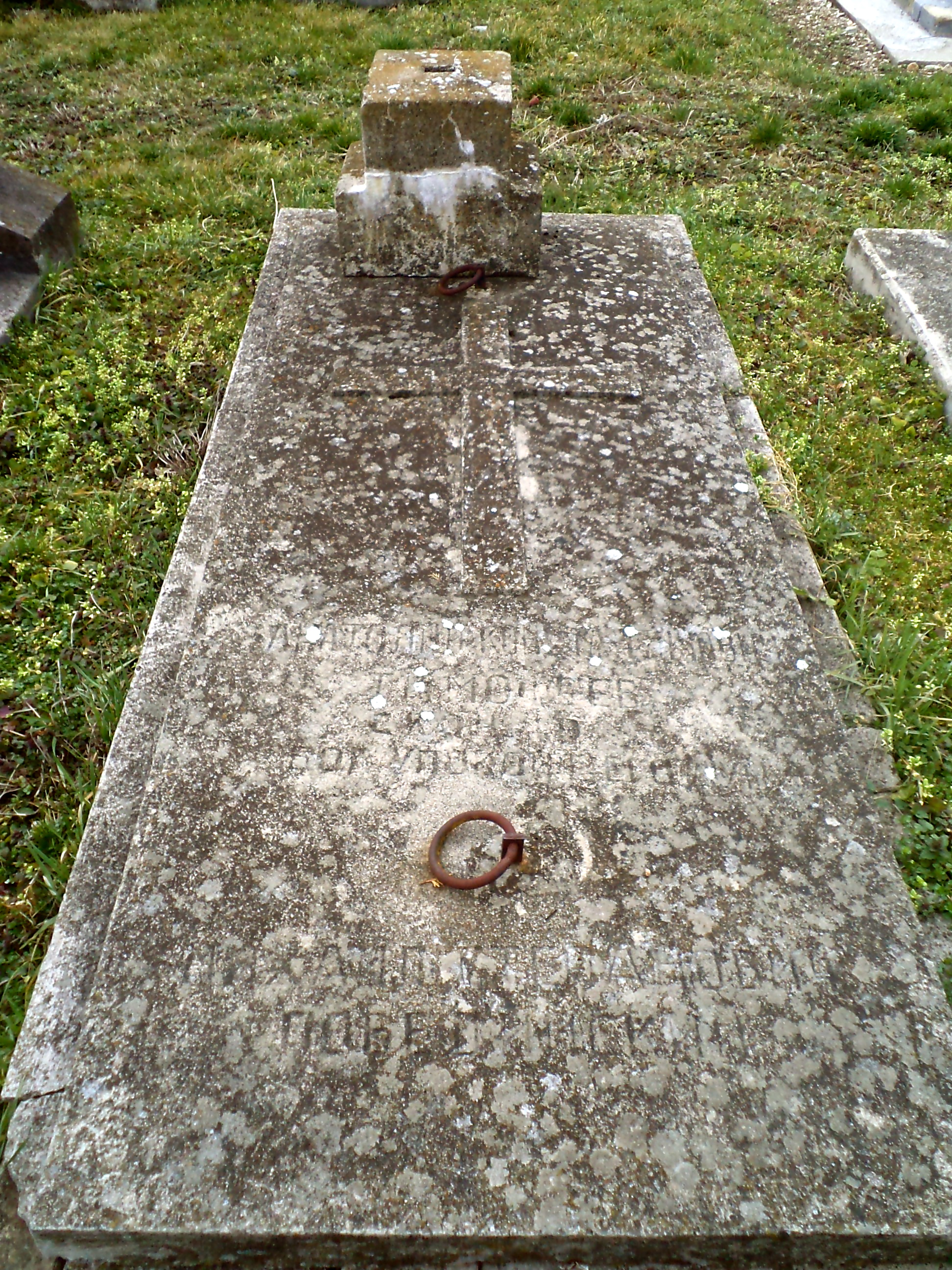 Timofeev A.K.